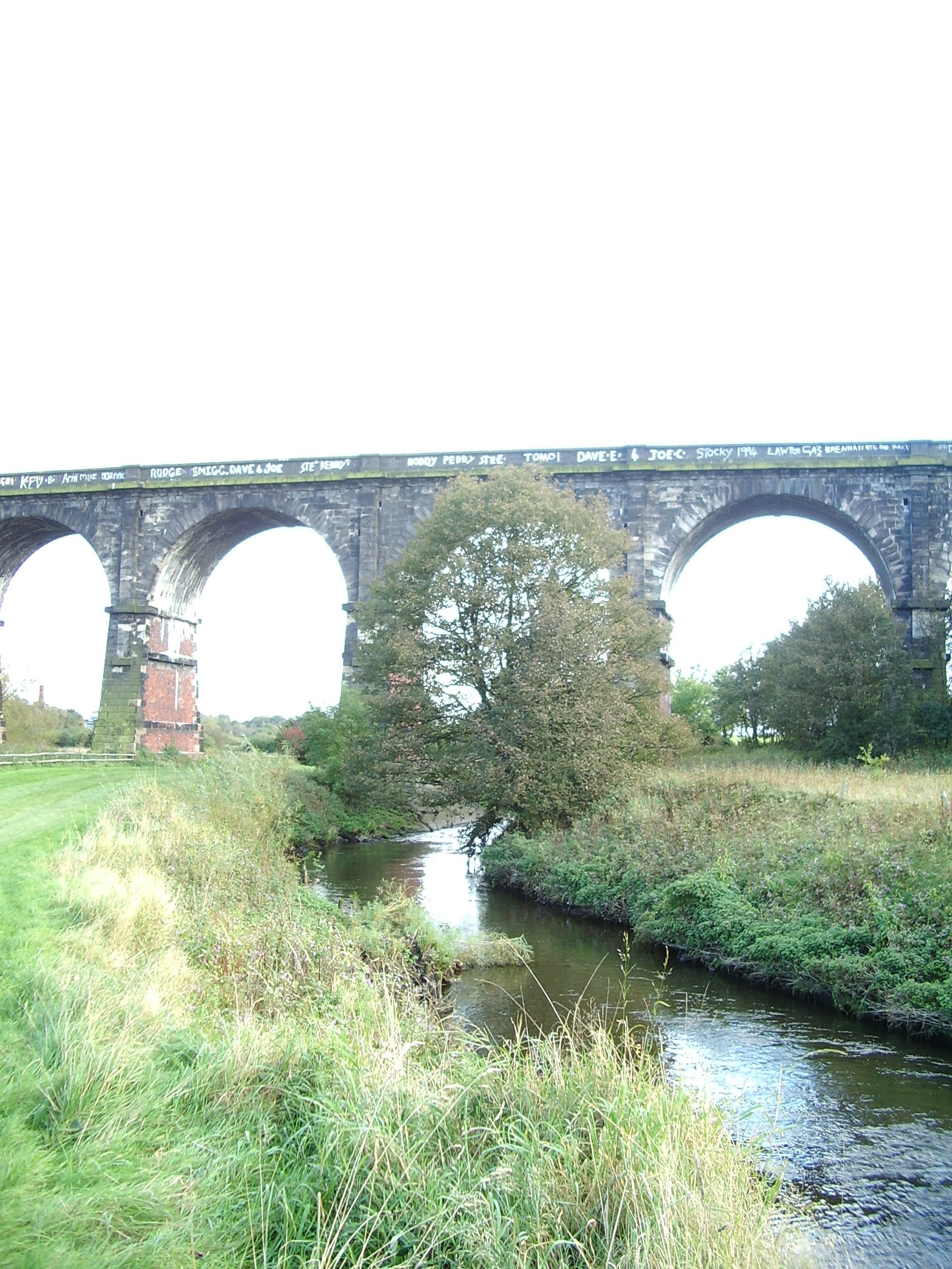 Stephenson's Viaduct crossing the Sankey Brook, photograph taken by Lmno on 9 Oct 2004